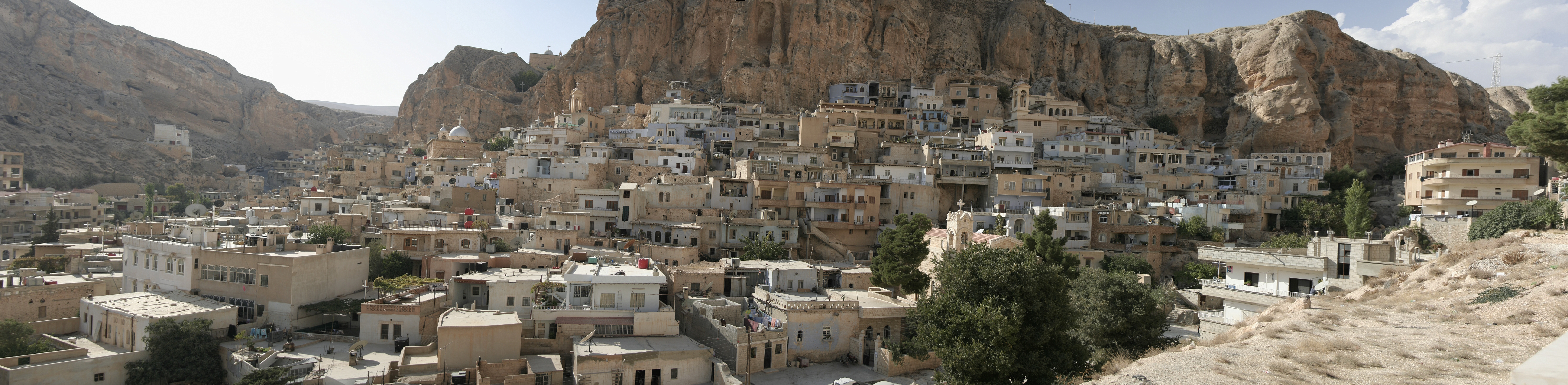 The town of Maaloula. On top of the hill but not in sight is the monastery Mar Sarkis.